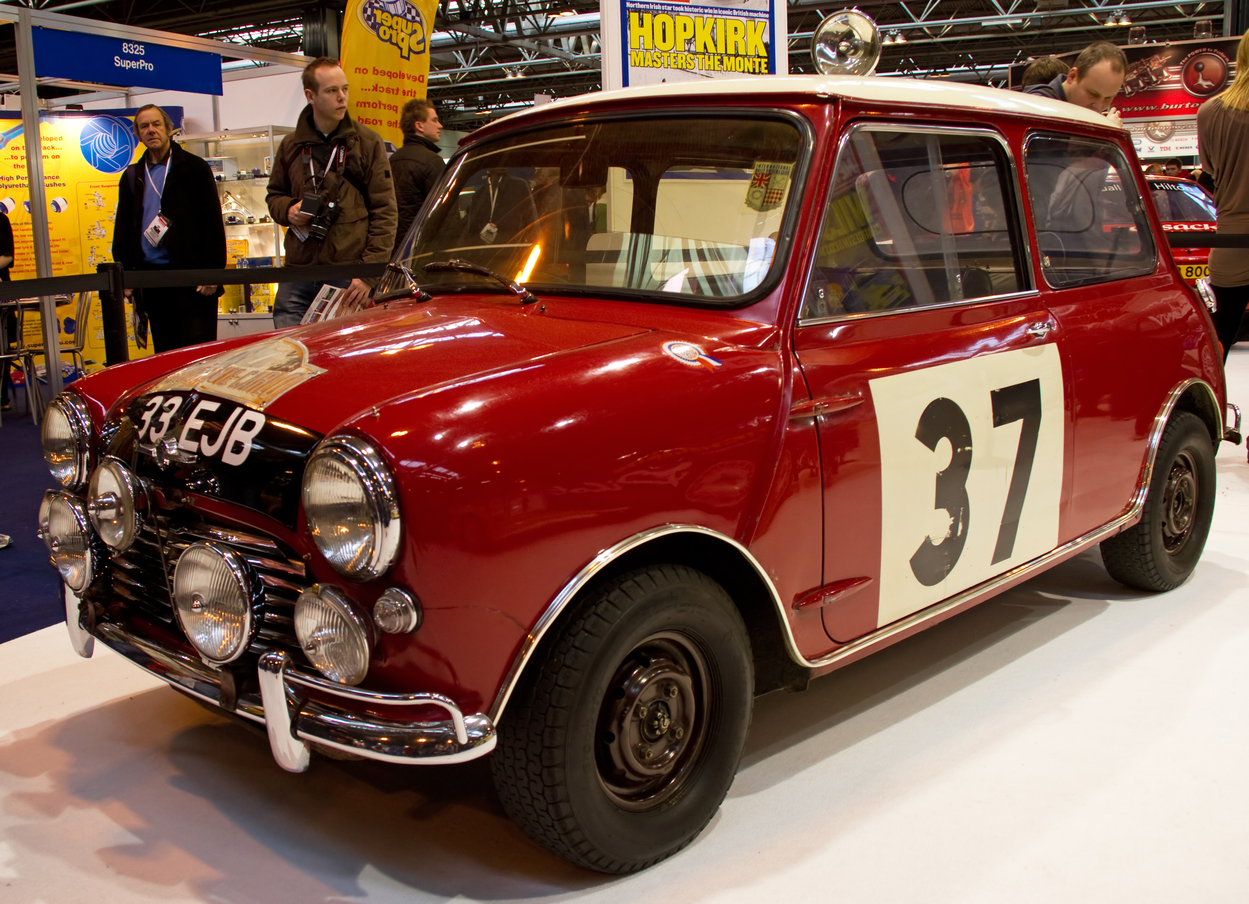 Paddy Hopkirk & Henry Liddon's 1964 Monte Carlo Rally Winning Cooper